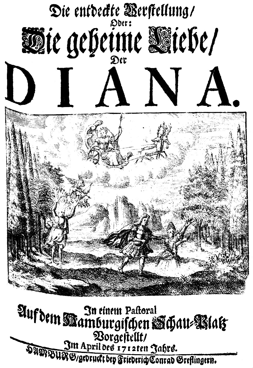 Reinhard Keiser - Die geheime Liebe der Diana - titlepage of the libretto from 1712